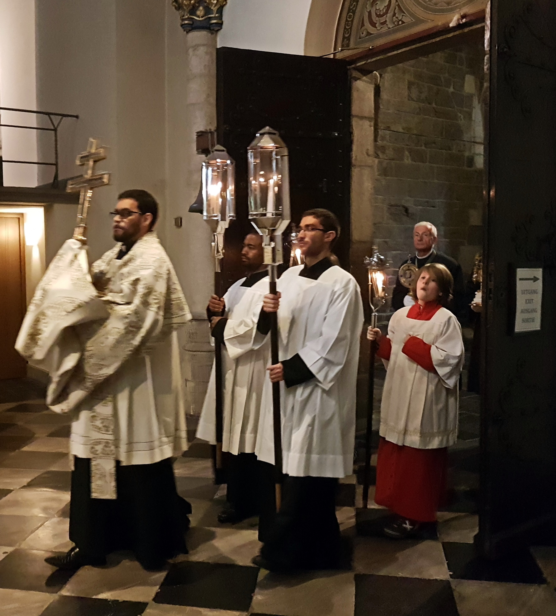 Reliquary procession entering the Basilica of Saint Servatius in Maastricht, Netherlands. This is part of a church service in which the main relics of the church are venerated. It is one of the highlights of the 2018 Heiligdomsvaart ("relics pilgrimage"), a religious and historic event that takes place once in seven years and dates back to the Middle Ages. The reliquary cross carried in here by a priest is the so-called Patriarchal Cross of circa 1490 with particles of the True Cross.